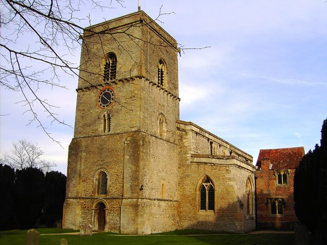 All Saints church, Sutton Courtenay, Oxfordshire (formerly Berkshire), viewed from the west